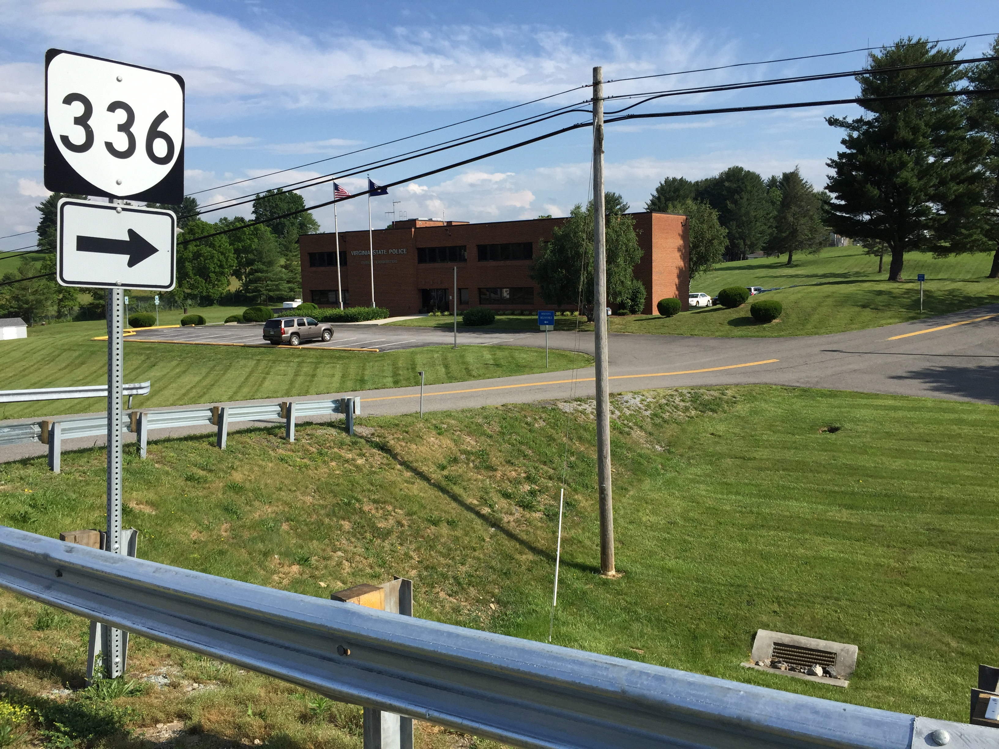 View north along Virginia State Route 336 at Lee Highway (Virginia State Secondary Route F-043) at the State Police Fourth Division Headquarters in Wythe County, Virginia